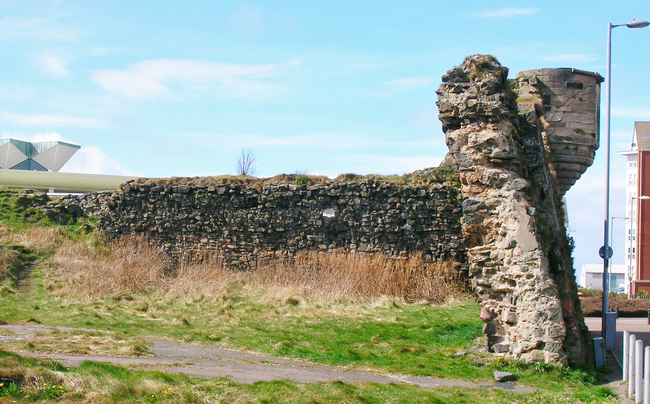 Miller's Folly, Ayr Citadel, Montgomerieston from South Harbour Street, South Ayrshire, Scotland. Showing angle of the wall.